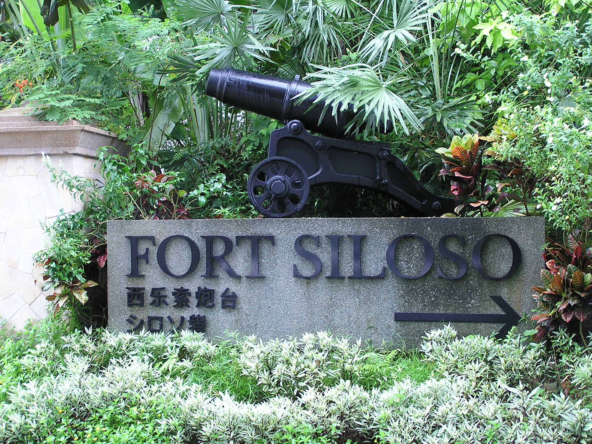 Fort Siloso sign, Sentosa, Singapore.